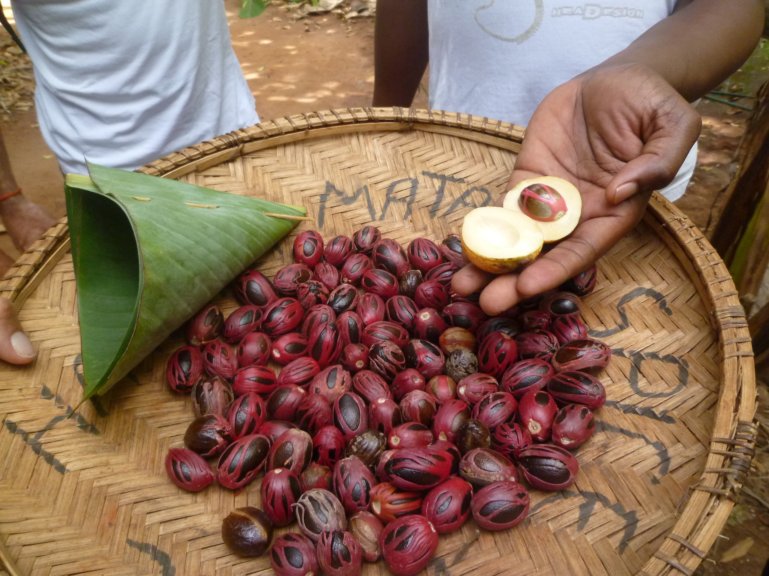 This is an image of Cultural Fashion or Adornment from Tanzania